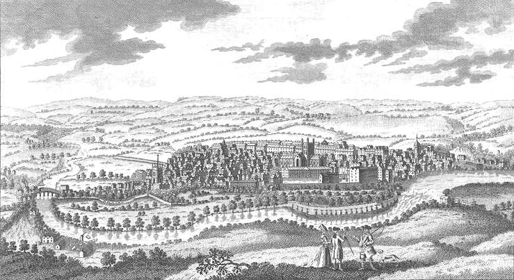 Bath, Somerset, England, UK